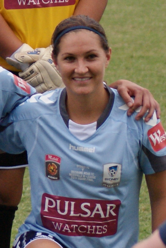 Lydia Vandenbergh (Sydney FC Women) just before the W-League 'Grand Final' (Season 2010/11)